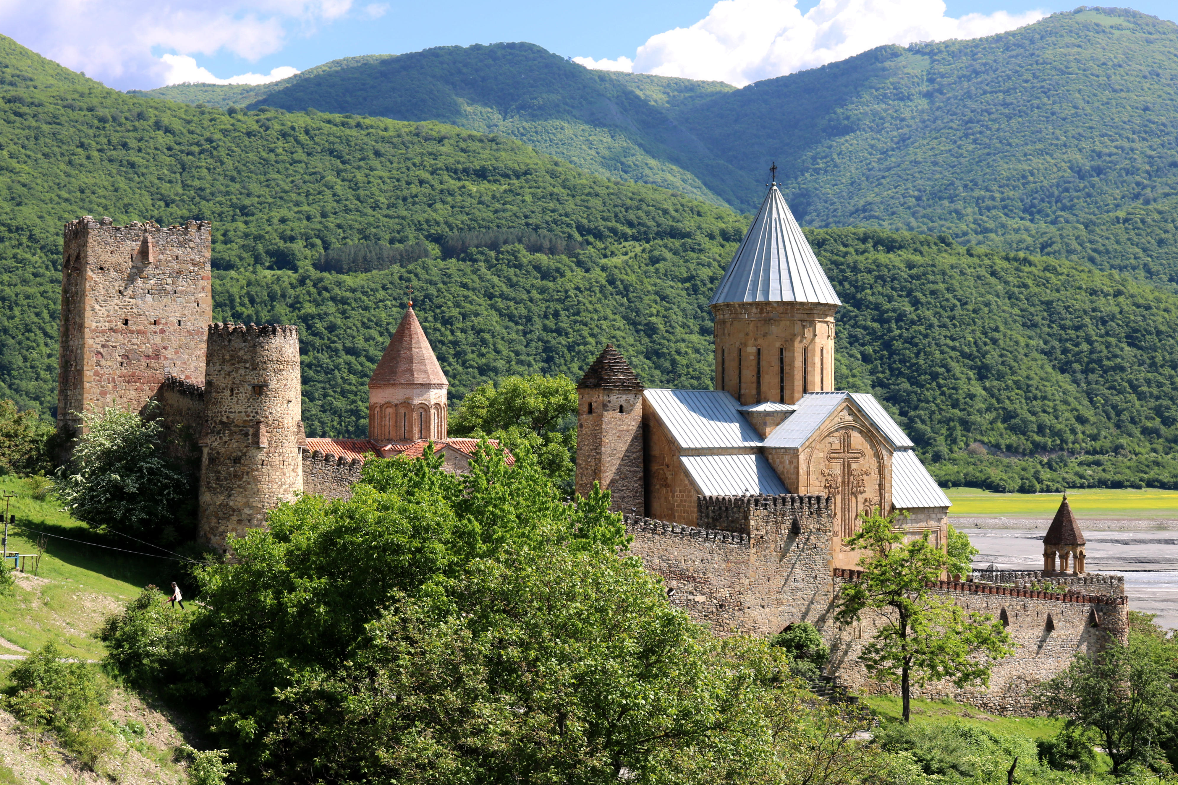 Ananuri Monastery, Region Mzcheta-Mtianeti, at the Georgian Military Road